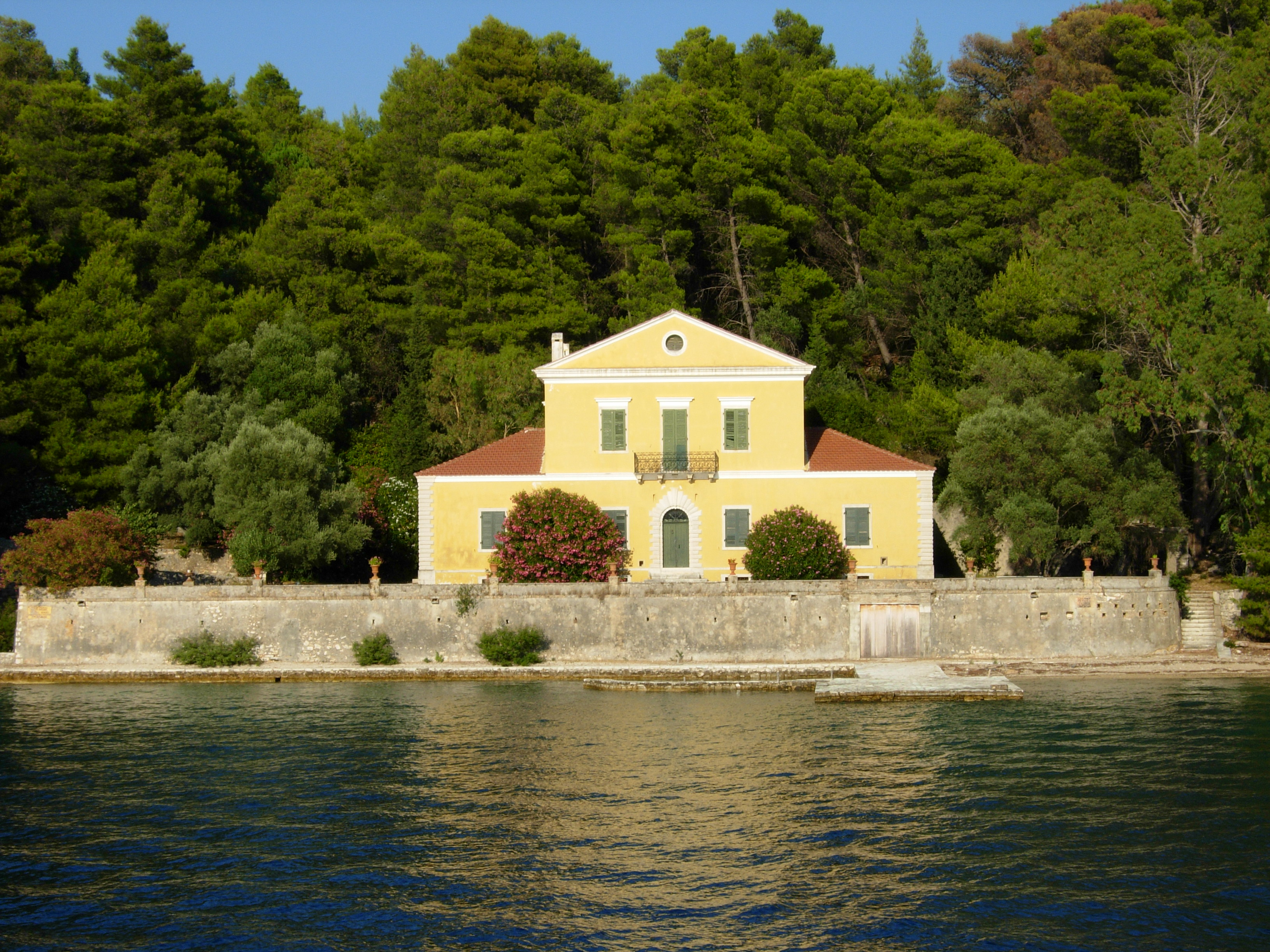 House of Valaoritis family in Madouri island of the Ionian Sea.